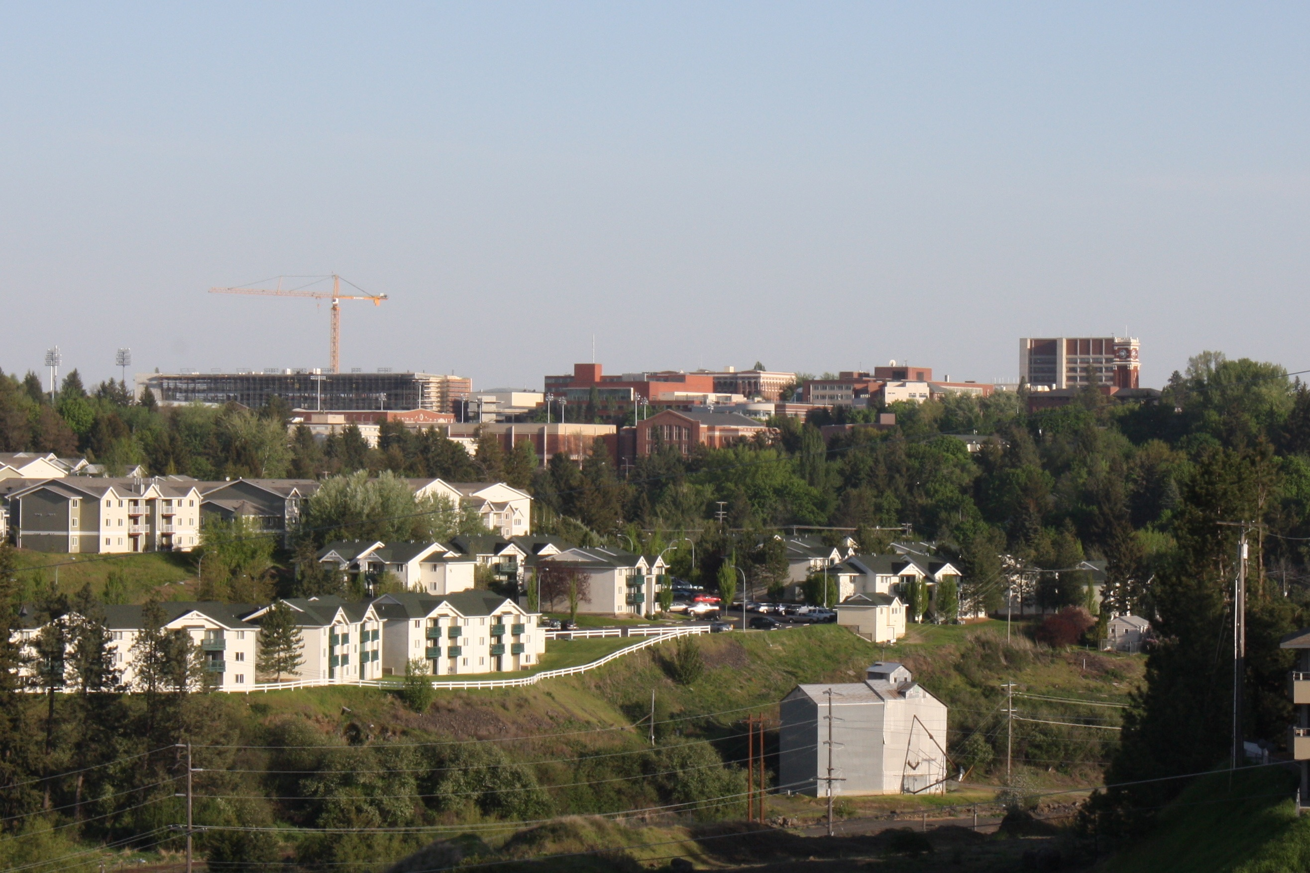 The campus of Washington State University in Pullman Washington as seen from the north.